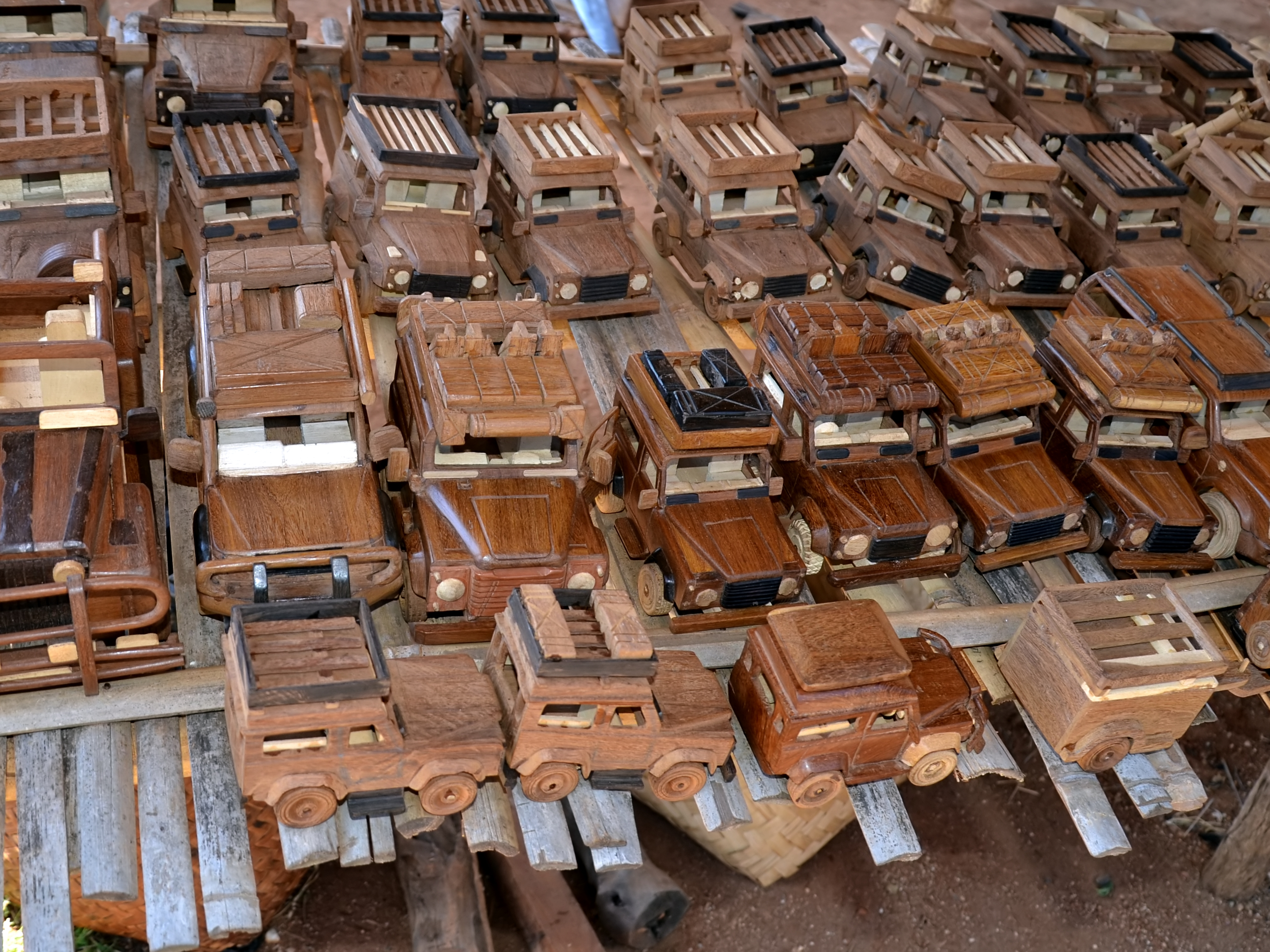 Wooden cars for sale on the Dedza-Golomoti road, Malawi